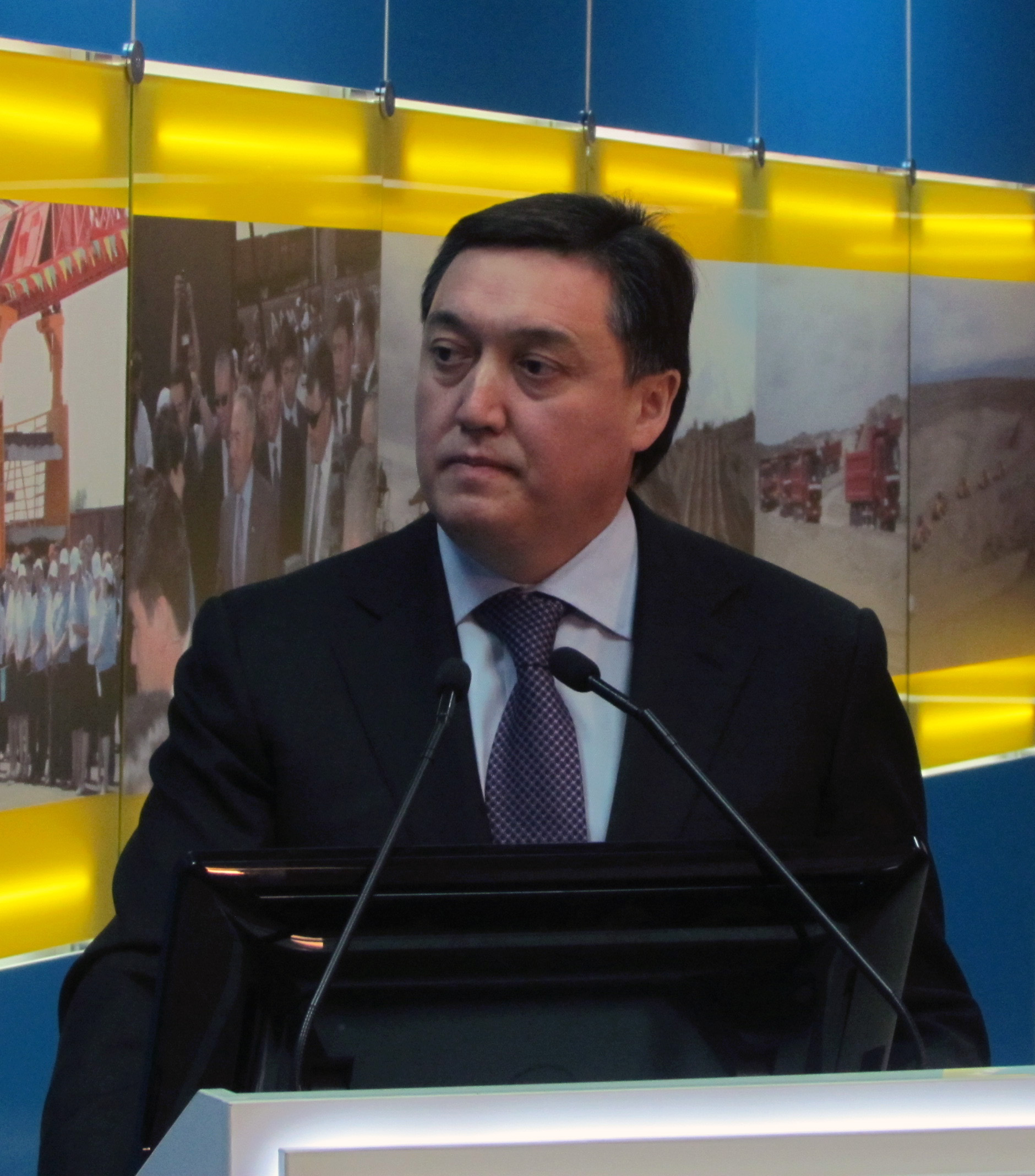 Askar Mamin - the president of Kazakhstan Temir Zholy at the Altynkol Station on December 2, 2011.